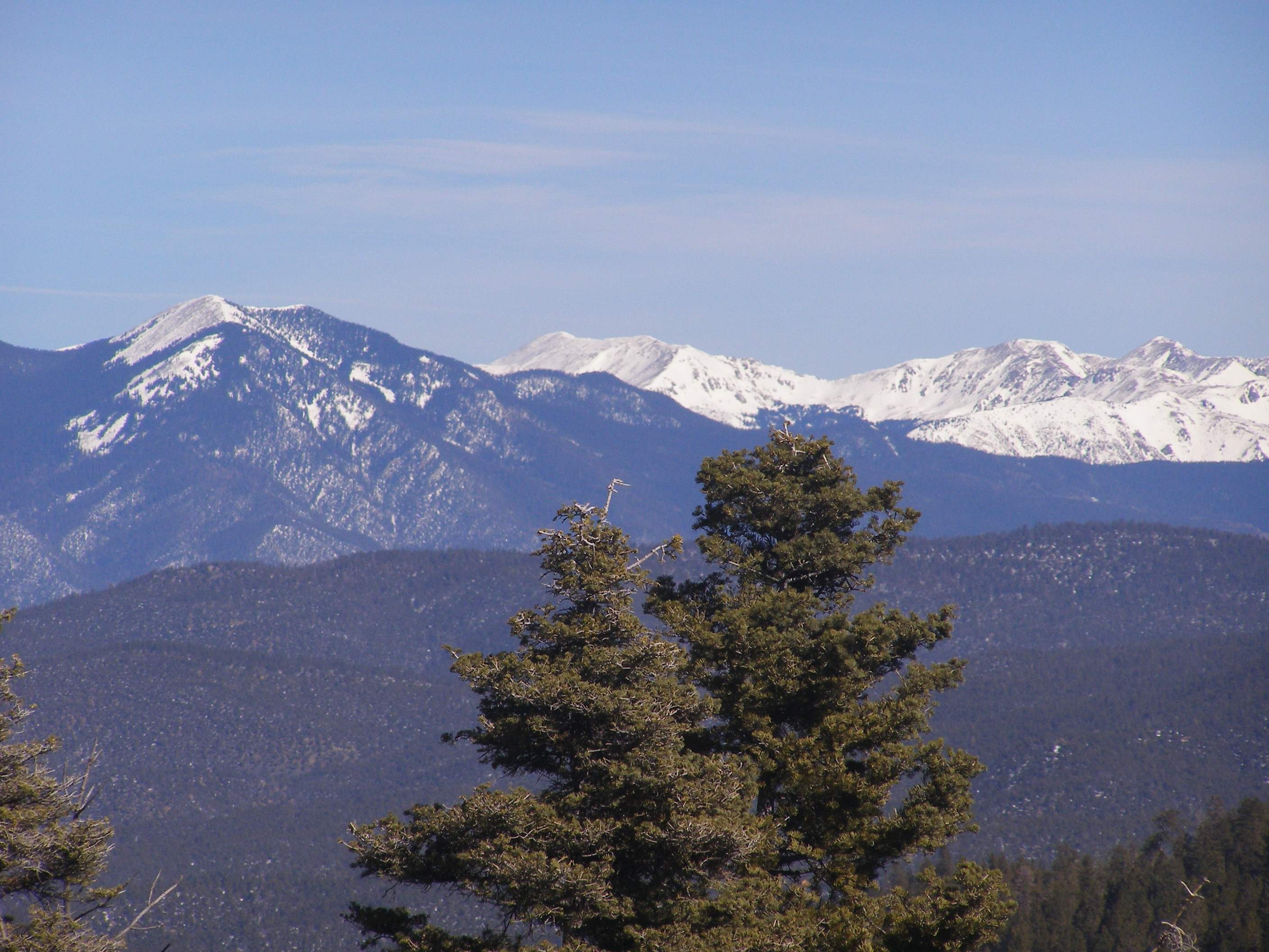 Lake Fork, Pueblo, and Wheeler Peals, taken from along New Mexico highway 518 (mileposts 60-61), between Ranchos de Taos and Penasco.